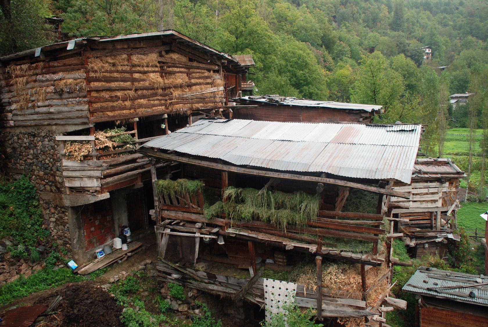 Barhal (Altiparmak), near Yusufeli, Artvin province